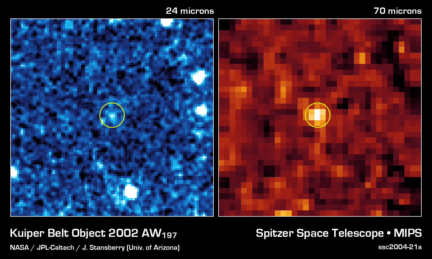 This infrared image from NASA's Spitzer Space Telescope shows 24 micron and 70 micron data for Kuiper Belt object 2002 AW197.